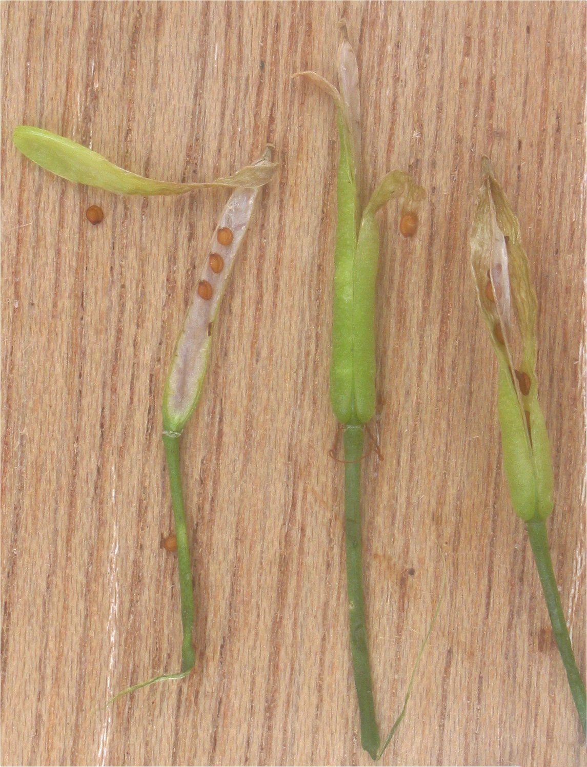 Rorippa microphylla siliques